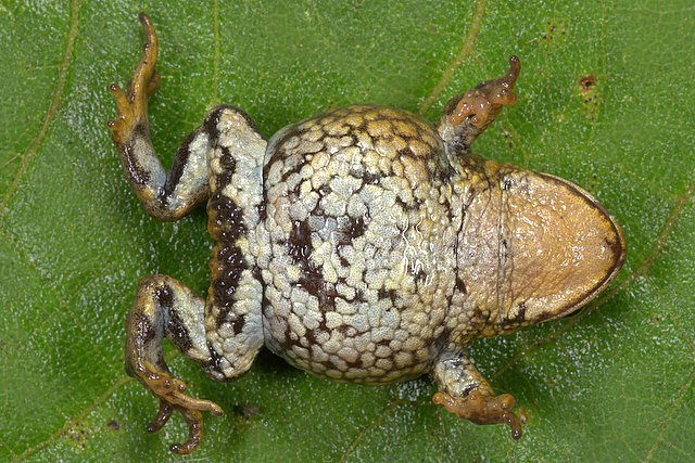 Bryophryne bustamantei